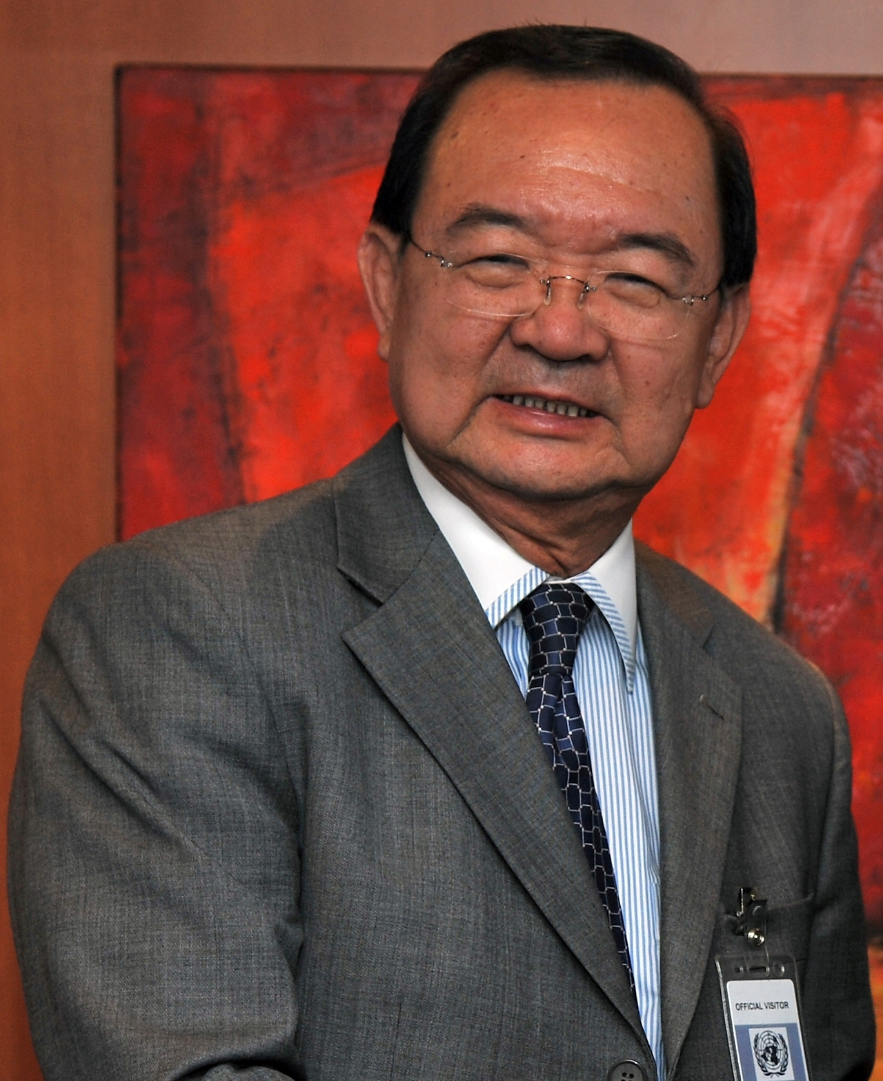 On 9 May 2011, Dato’ Sri Peter Chin Fah Kui, Minister for Energy, Green Technology and Water of Malaysia met IAEA Director General Yukiya Amano at the IAEA’s headquarters in Vienna, Austria.